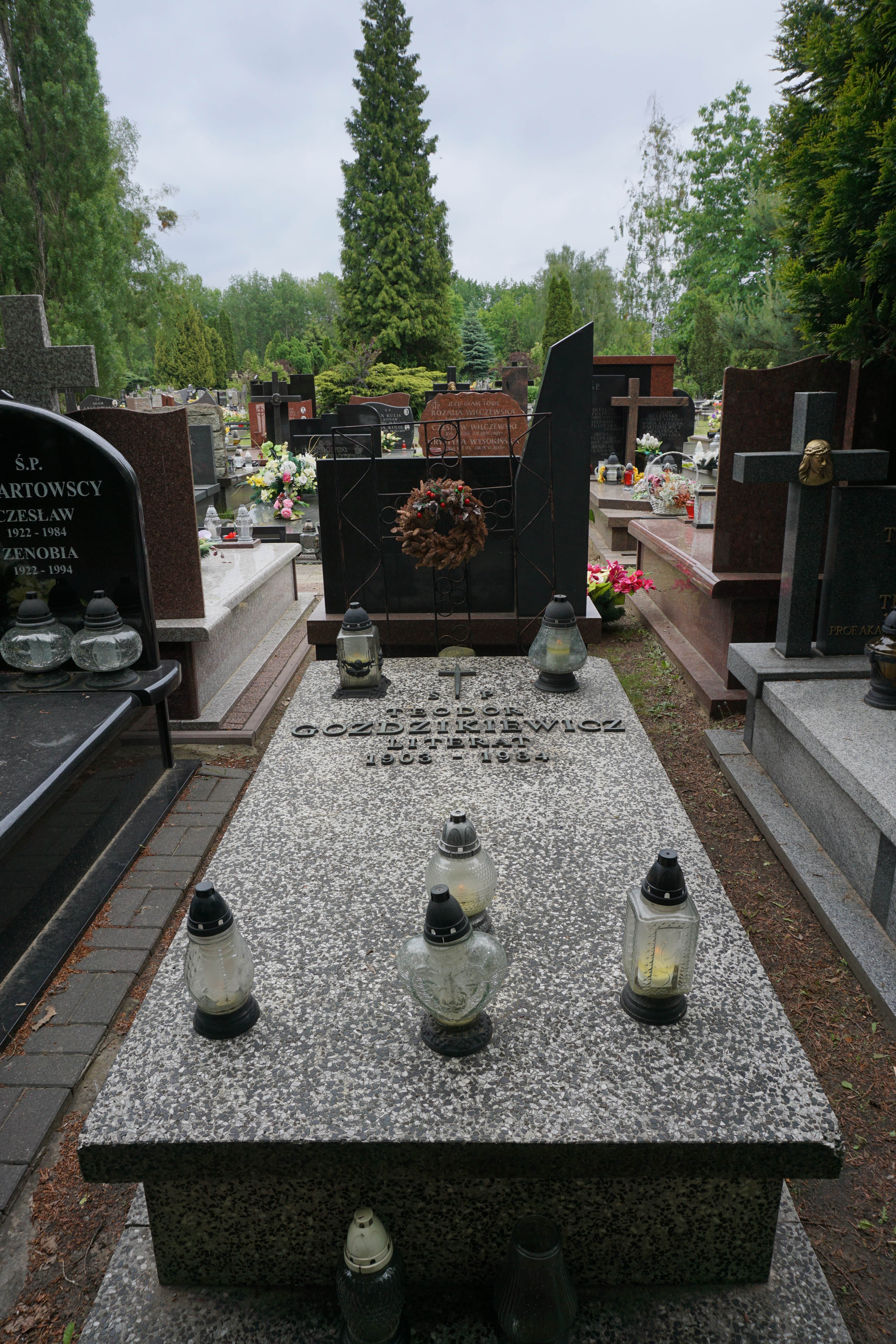 The grave of Teodor Goździkiewicz at the North Municipal Cemetery in Warsaw (section E-IX-2, row 1, grave 12)